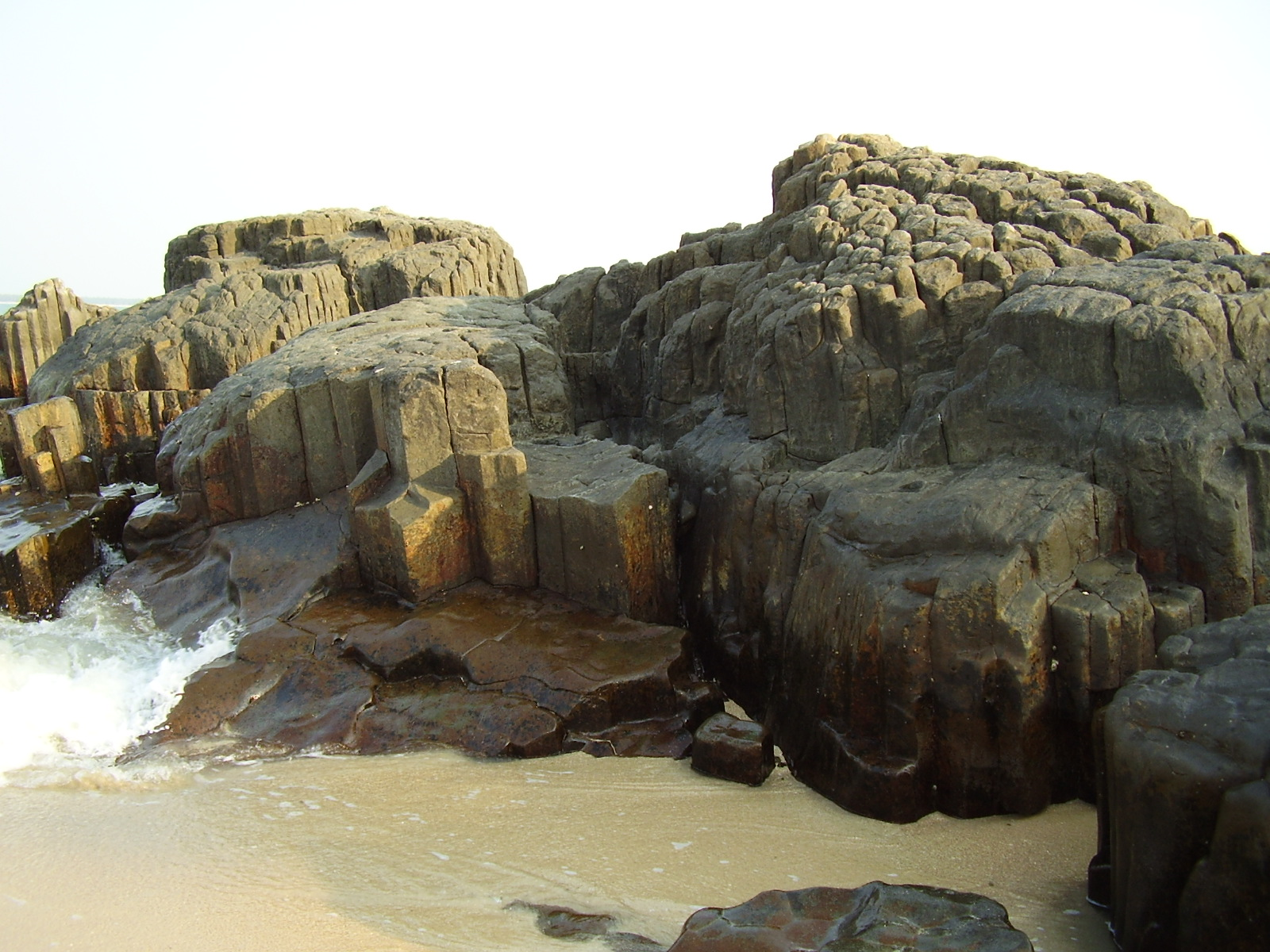 View of basaltic rock formation in St Mary's Island, Karnataka.jpg